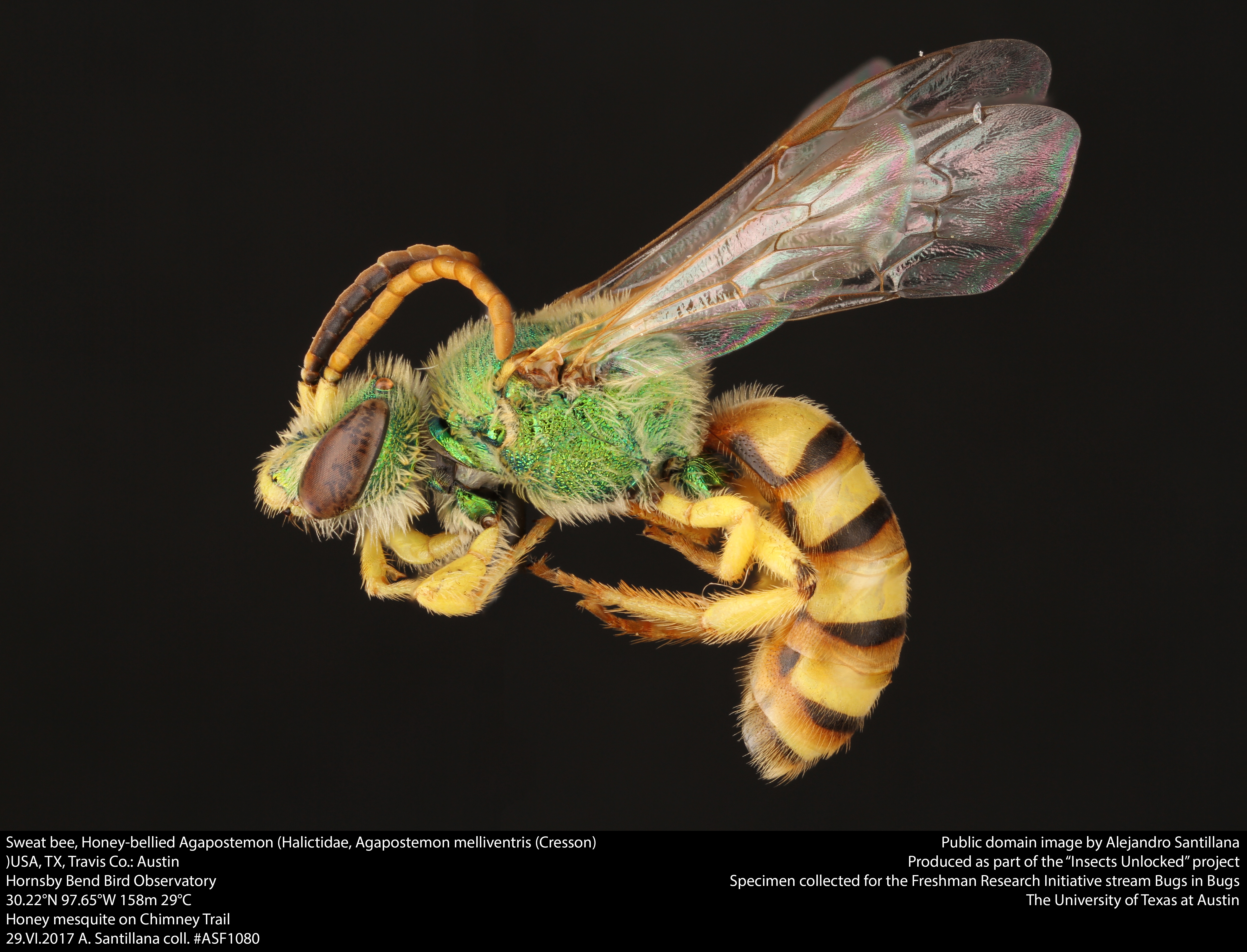 Sweat bee, Honey-bellied Agapostemon (Halictidae, Agapostemon melliventris (Cresson) )USA, TX, Travis Co.: Austin Hornsby Bend Bird Observatory 30.22Â°N 97.65Â°W 158m 29Â°C Honey mesquite on Chimney Trail 29.VI.2017 A. Santillana coll. #ASF1080